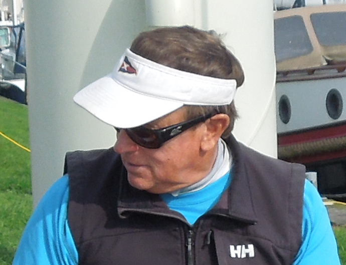 Peter Hall, Canadian Sailor